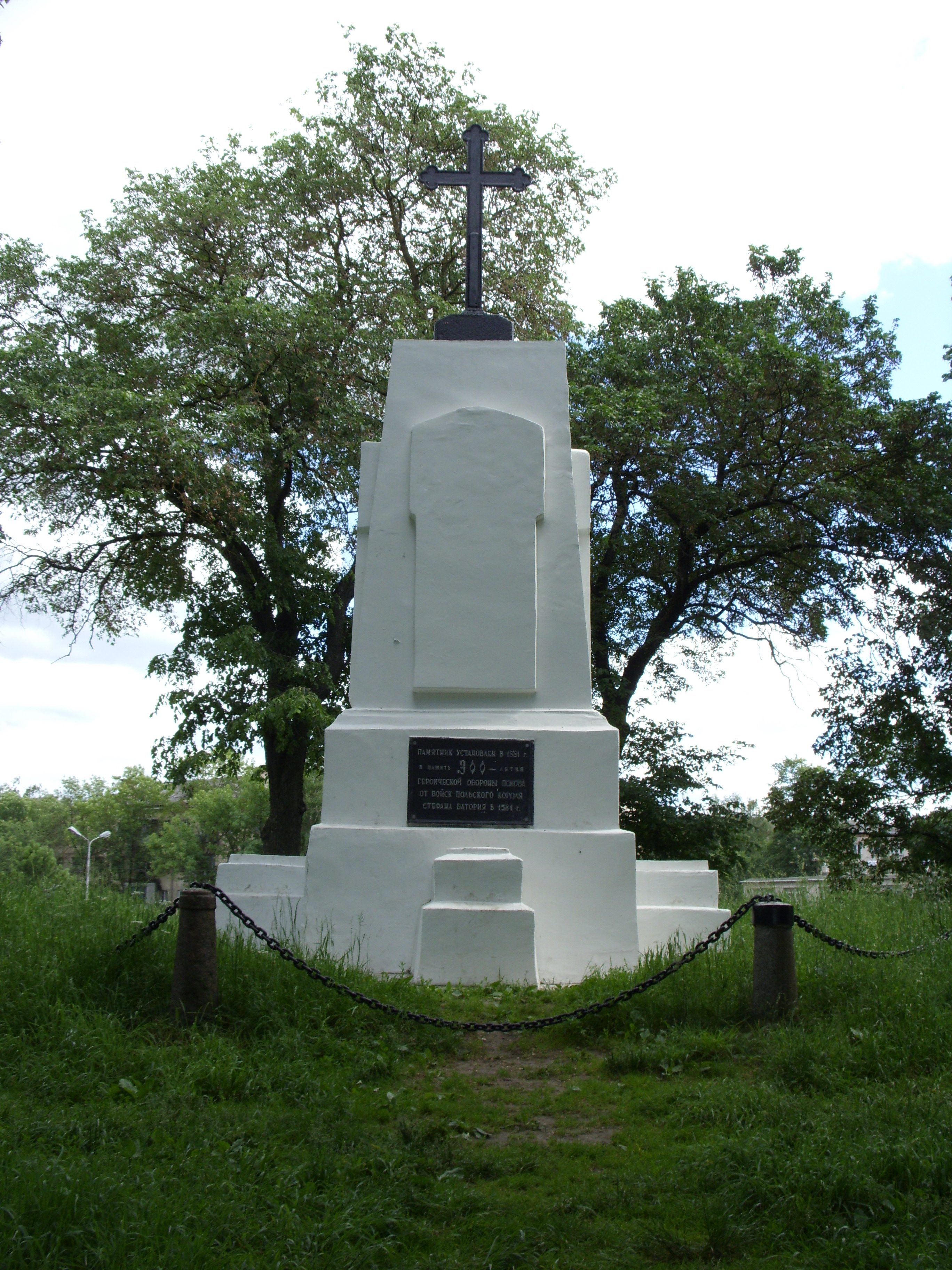 Pskov Pamjatnik 300-letiju oborony 1581 goda